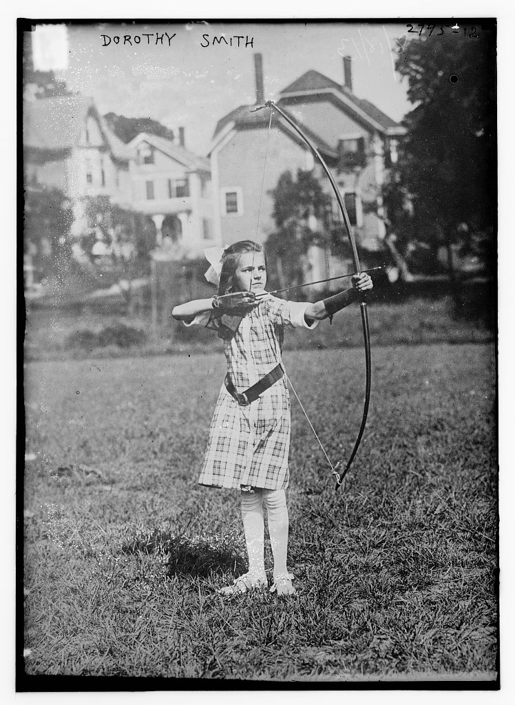 Bain News Service,, publisher. Dorothy Smith Cummings [between ca. 1910 and ca. 1915] 1 negative : glass ; 5 x 7 in. or smaller. Notes: Title from unverified data provided by the Bain News Service on the negatives or caption cards. Forms part of: George Grantham Bain Collection (Library of Congress). Format: Glass negatives. Repository: Library of Congress, Prints and Photographs Division, Washington, D.C. 20540 USA, General information about the Bain Collection is available at Persistent URL: Call Number: LC-B2- 2795-12